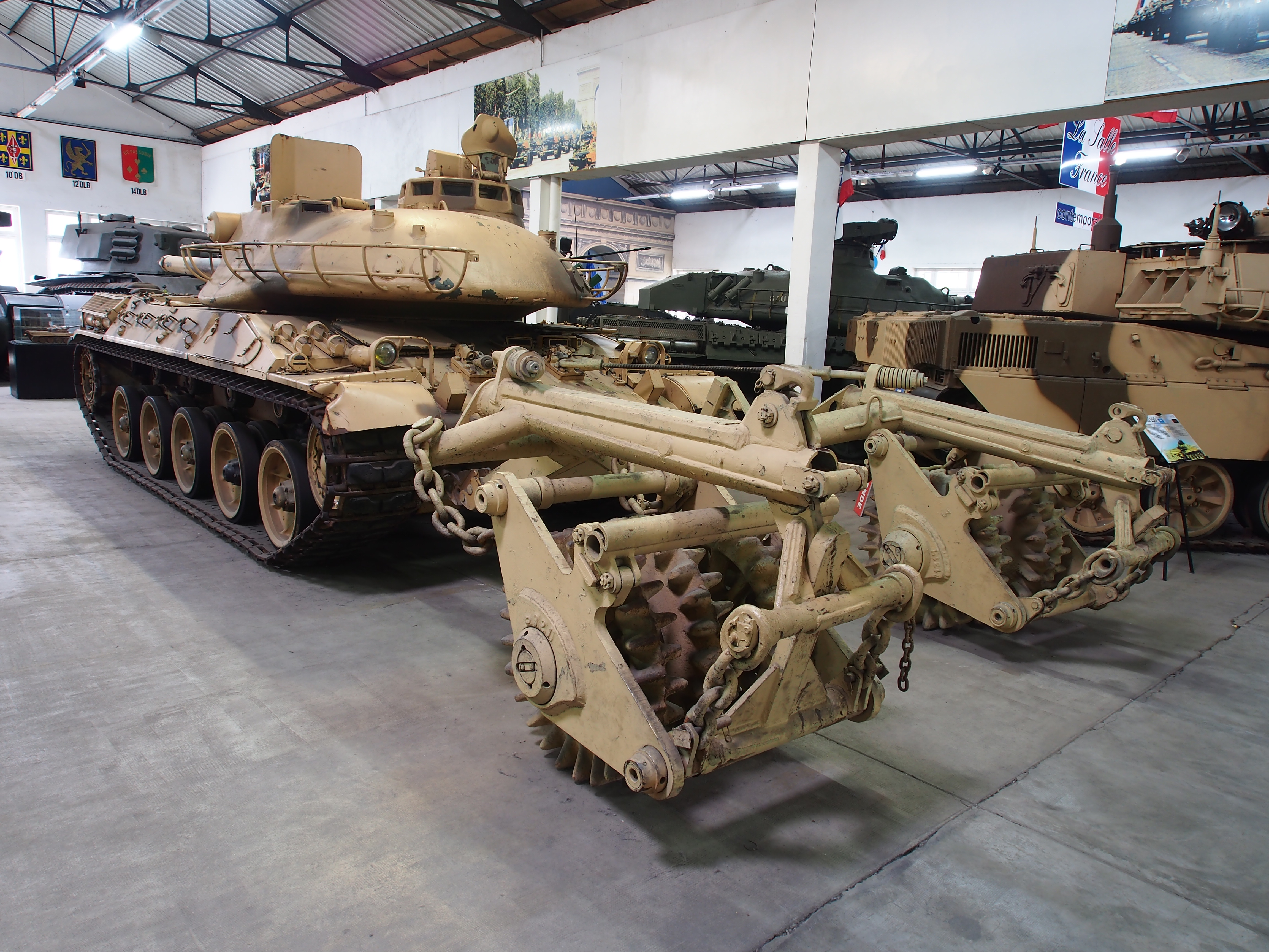 Photographed in the Musée des Blindés, France.